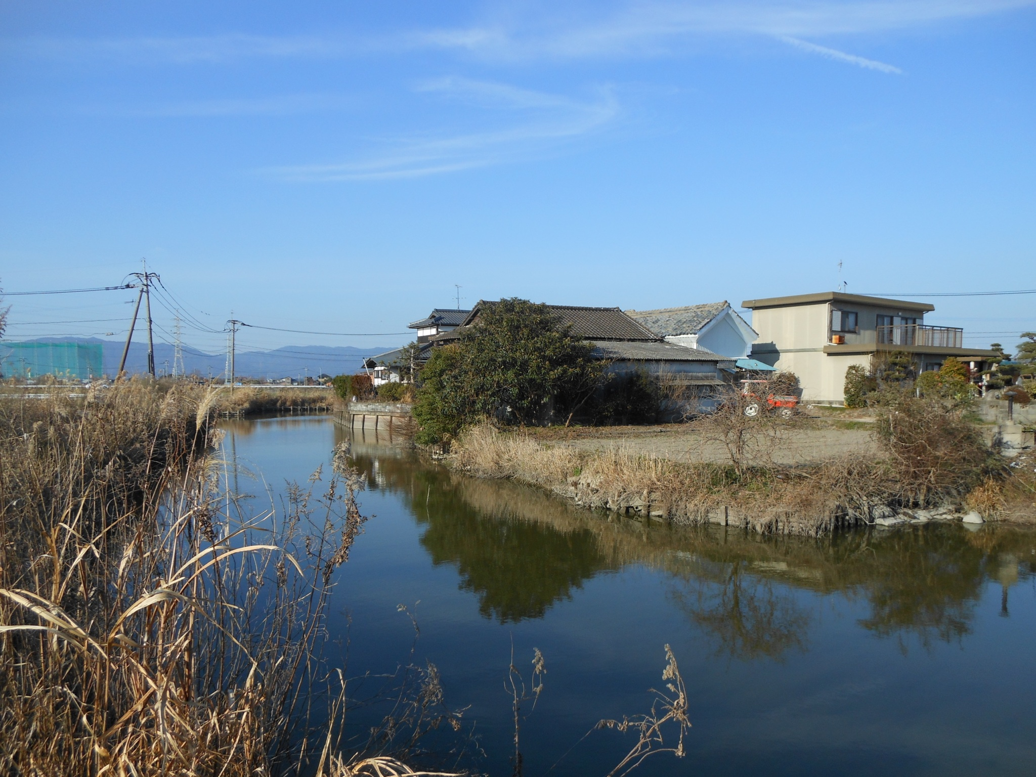 Creeks and houses in Hyōgo, Saga City.